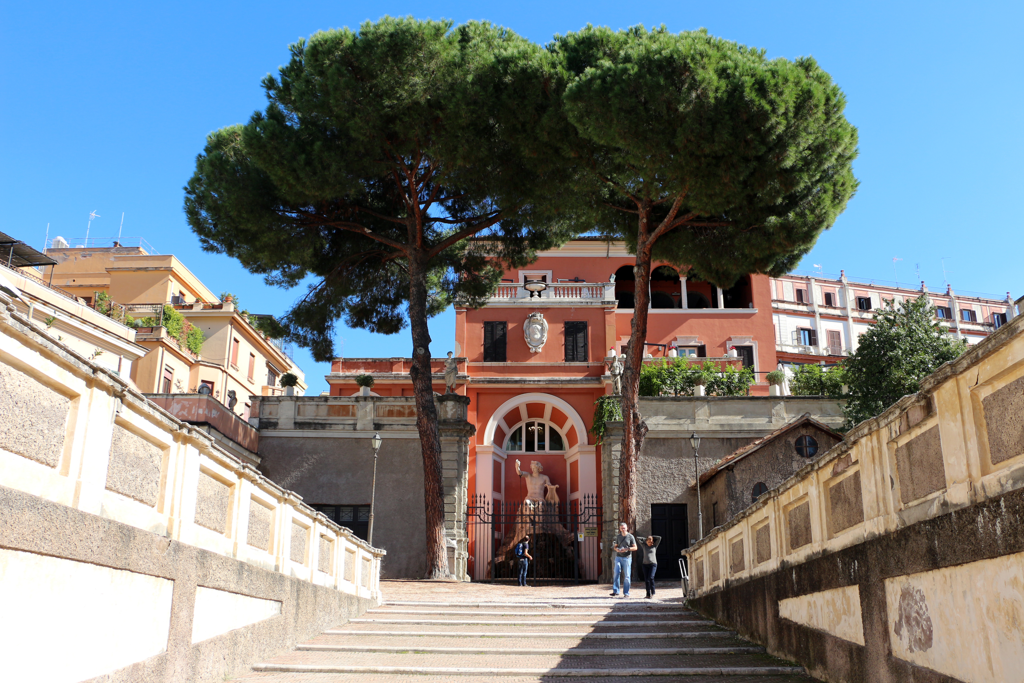 Palazzo Barberini (Rome)